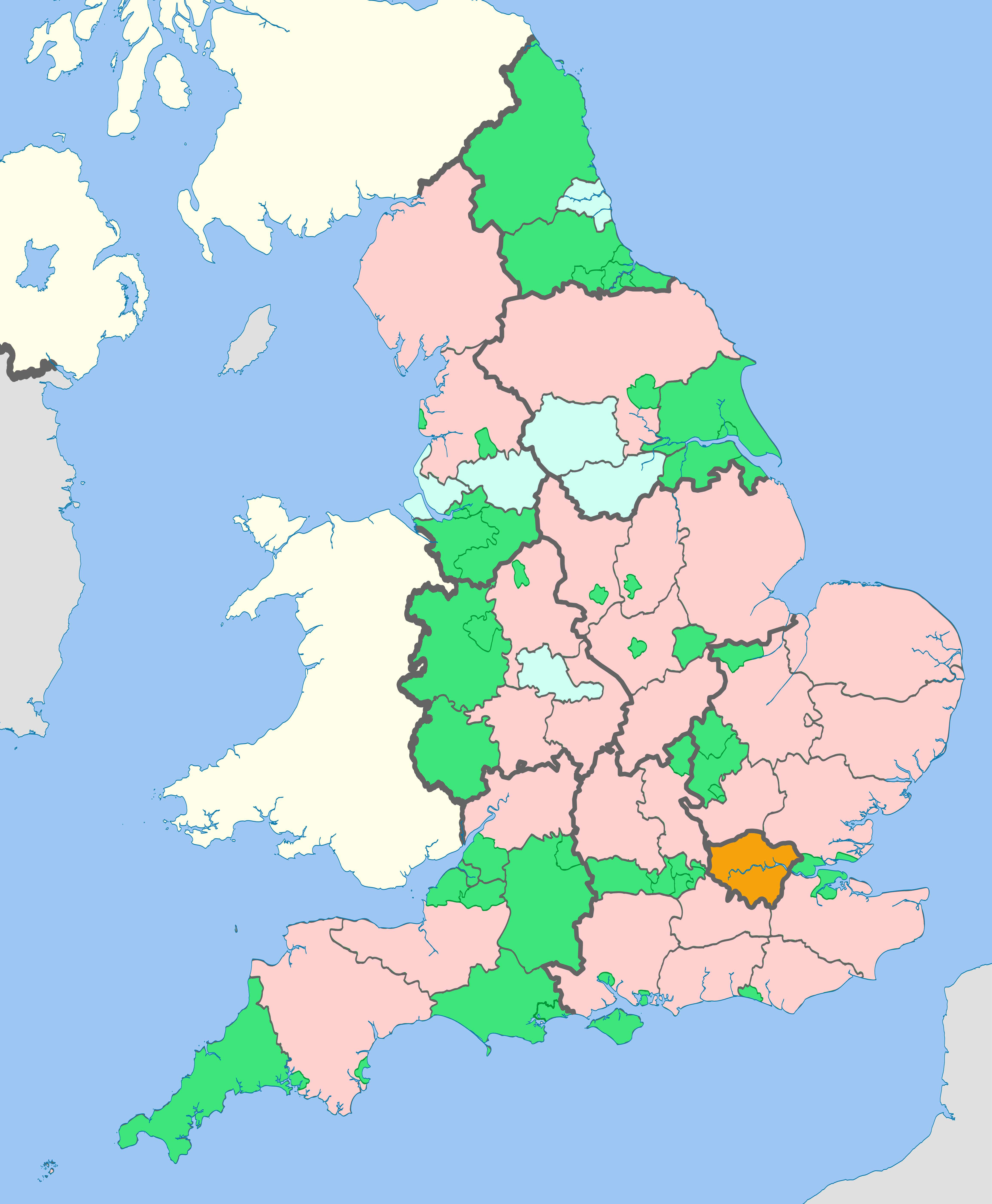 Map showing the Regions of England and the constituent metropolitan and non-metropolitan counties in 2019. Equirectangular map projection on WGS 84 datum, with N/S stretched 170% Geographic limits: West: 6.75W East: 2.0E North: 56.0N South: 49.75N regional boundary ceremonial county boundary two-tier non-metropolitan county metropolitan county Greater London unitary authority| (non-metropolitan county)